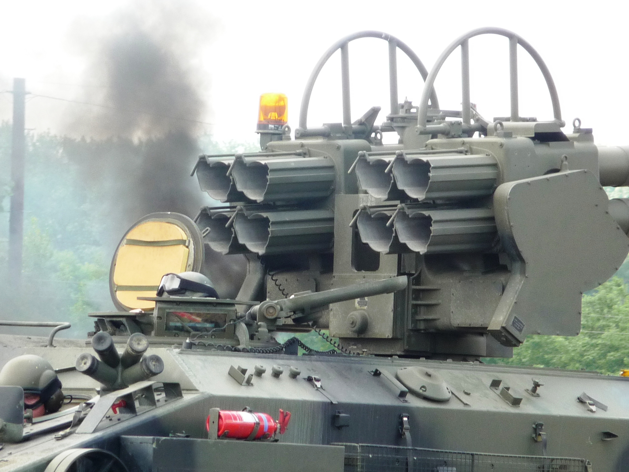 Alvis Stormer at the Tankfest 2009.